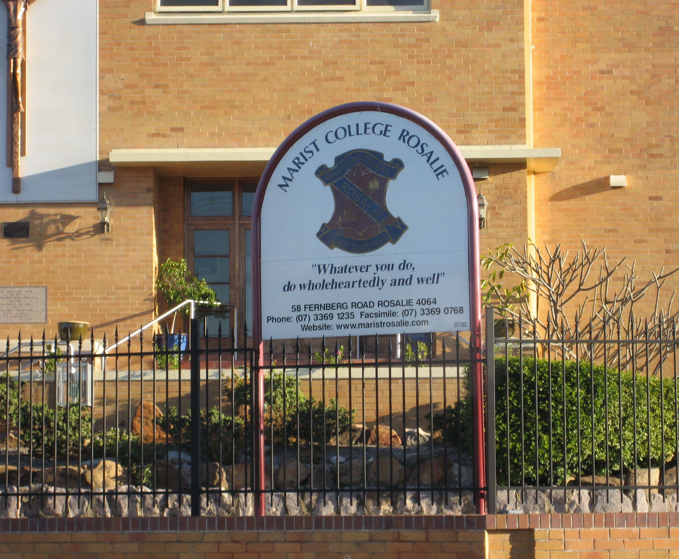 I took the photo.